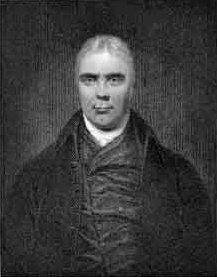 Picture of Andrew Fuller.